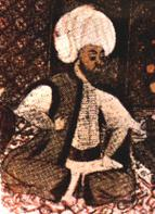 Isḥāq al-Kindī (801-873 CE) wrote the earliest known book on cryptanalysis, including details of frequency analysis (using aspects of probability some.